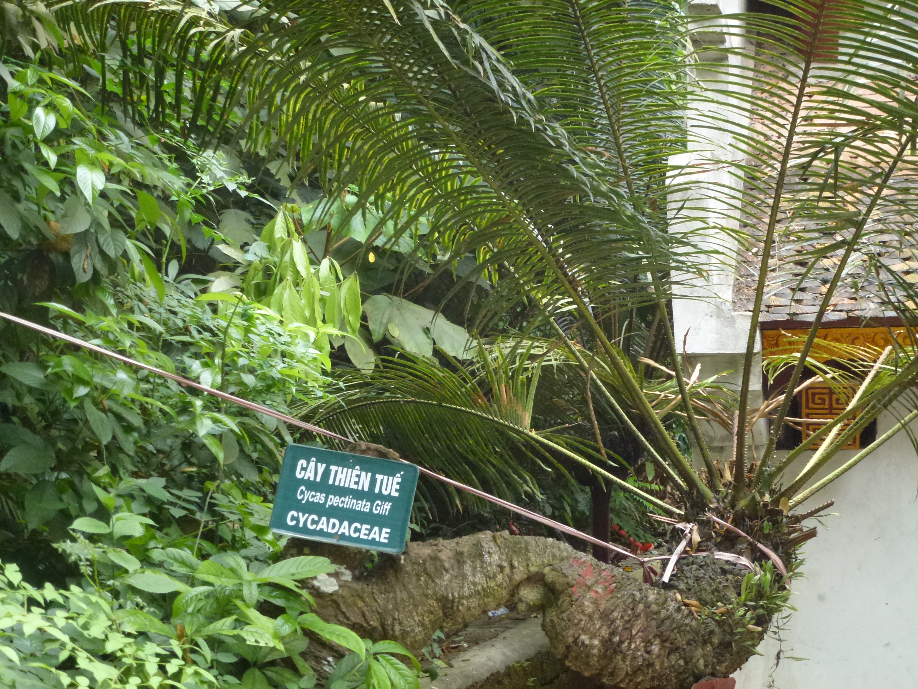 Cycas pectinata at Hùng Temple, Vietnam